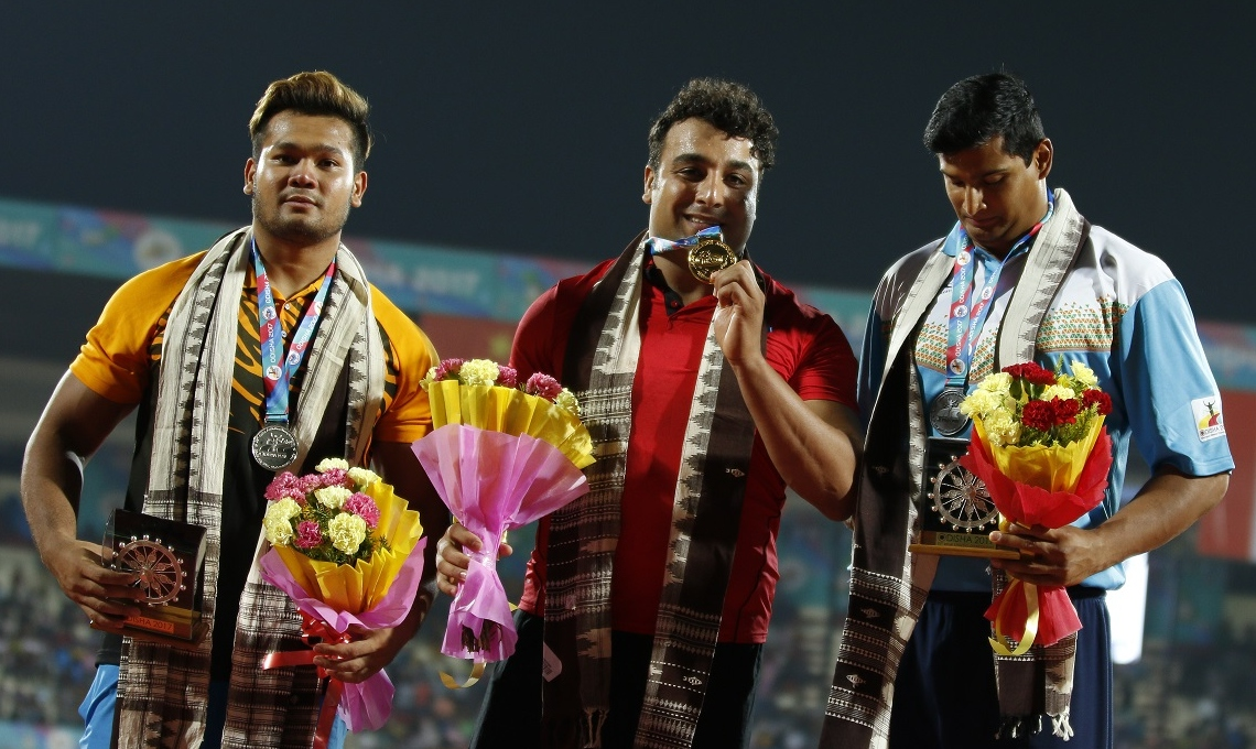 Athletes during 22nd Asian Athletics Championships in Bhubaneswar.